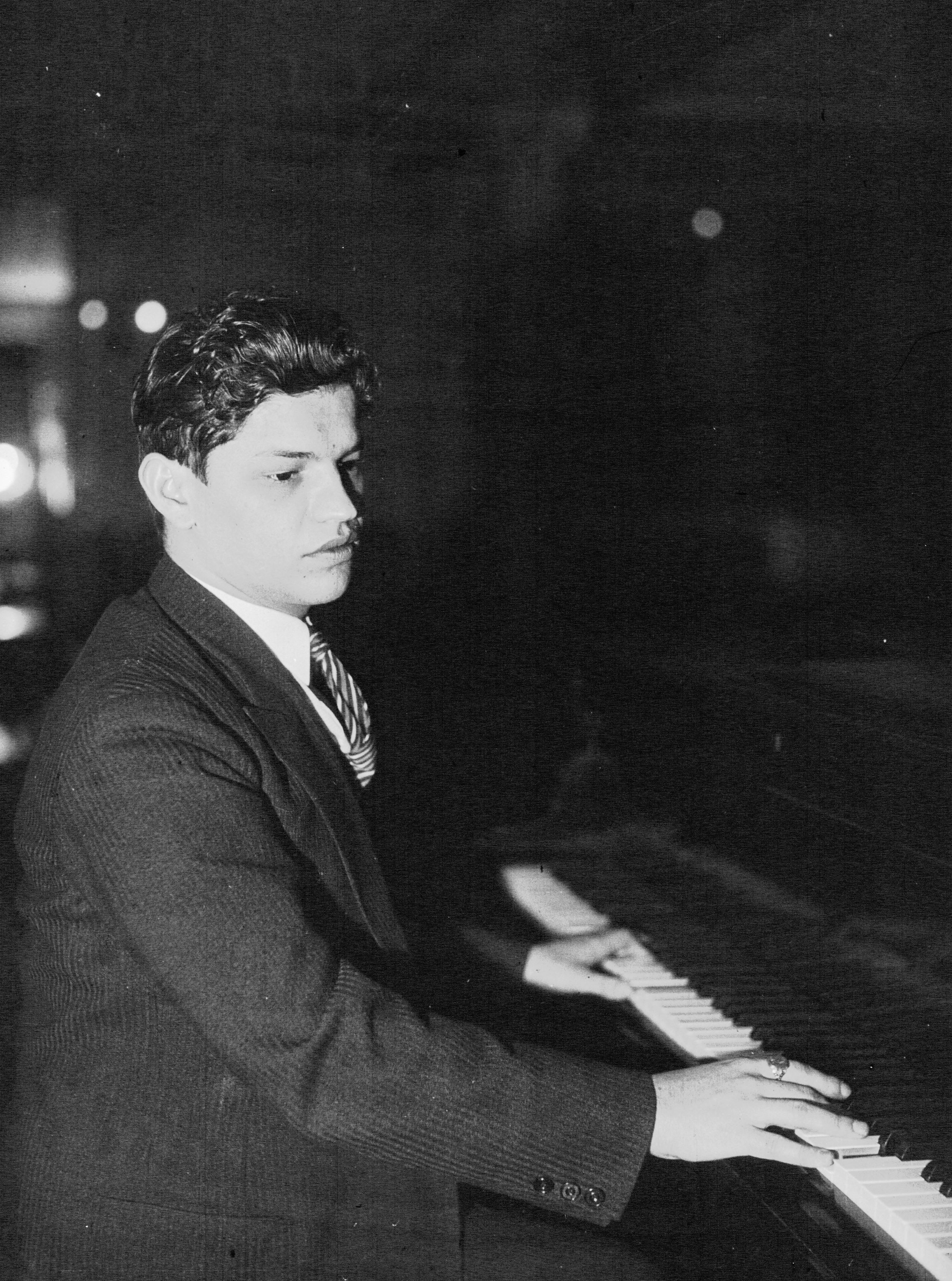 Imre Ungár's portrait during Chopin's International Congress in Warsaw ( March 1932)